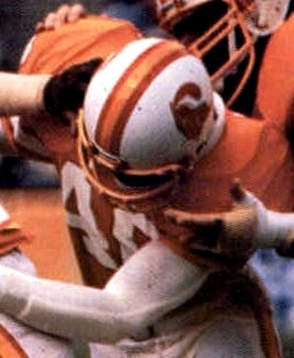 Tampa Bay Bucaneers' cornerback Mike Washington pictured in a defensive play against the Philadelphia Eagles during the 1979 NFC Divisional Playoff Game on December 29, 1979.